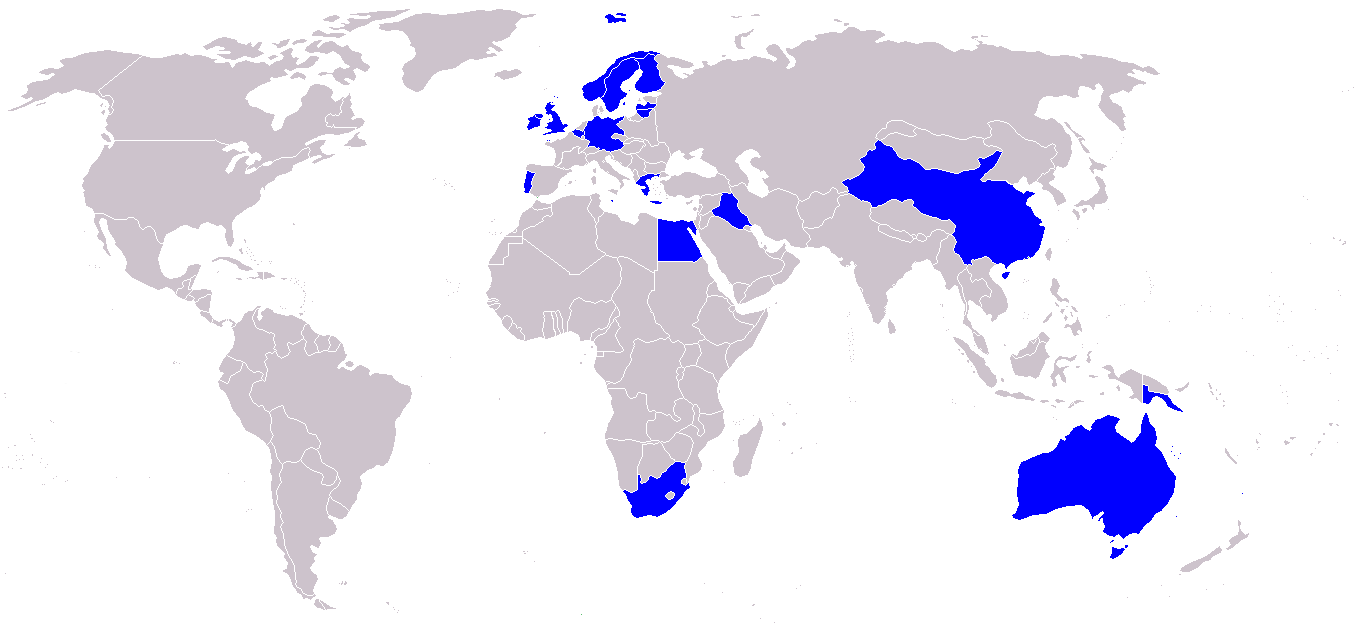 Operators of the Gloster Gladiator and Sea Gladiator. Own work, derivative of File:BlankMap-World-WWII.PNG.